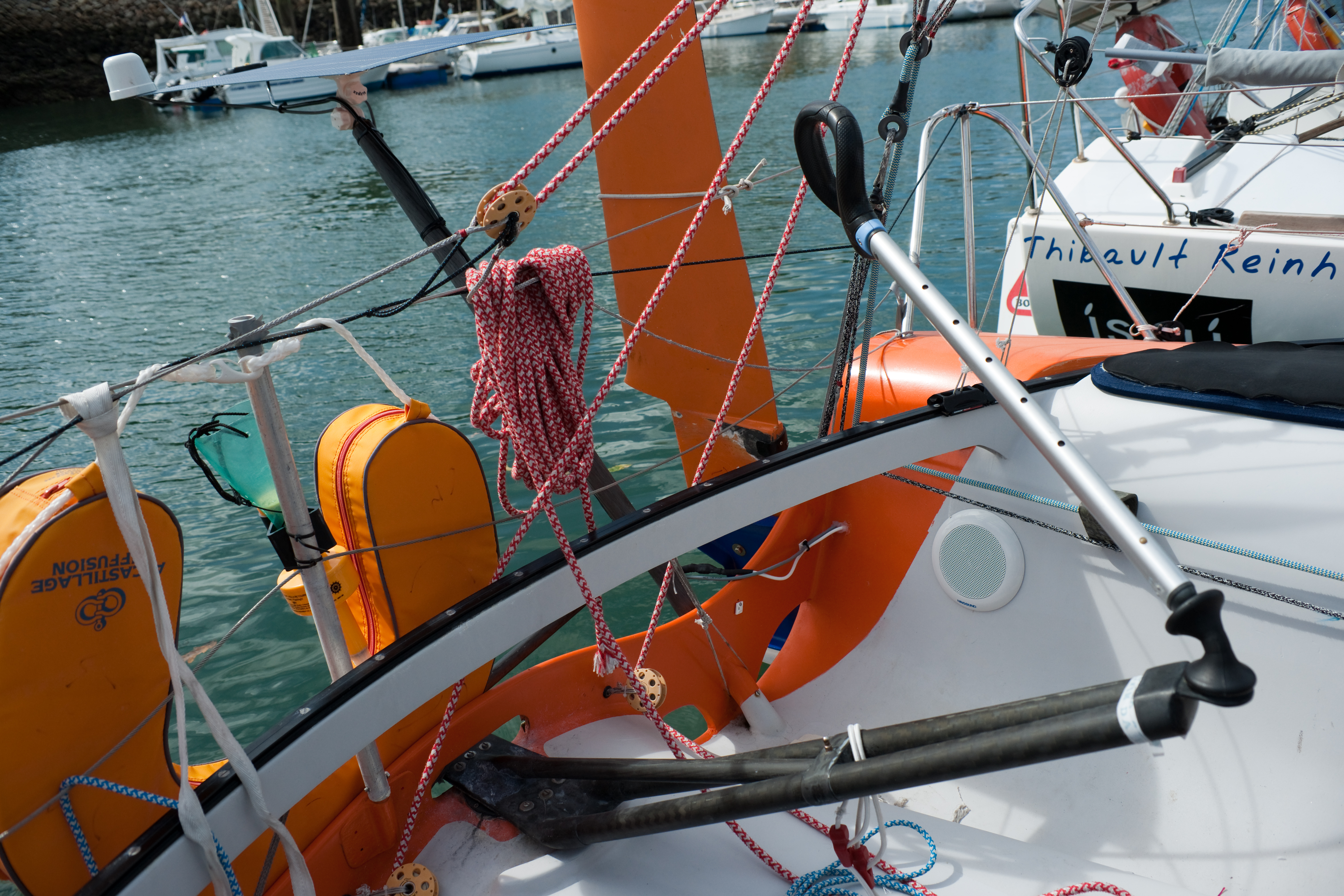 Cockpit of a Mini 6.50